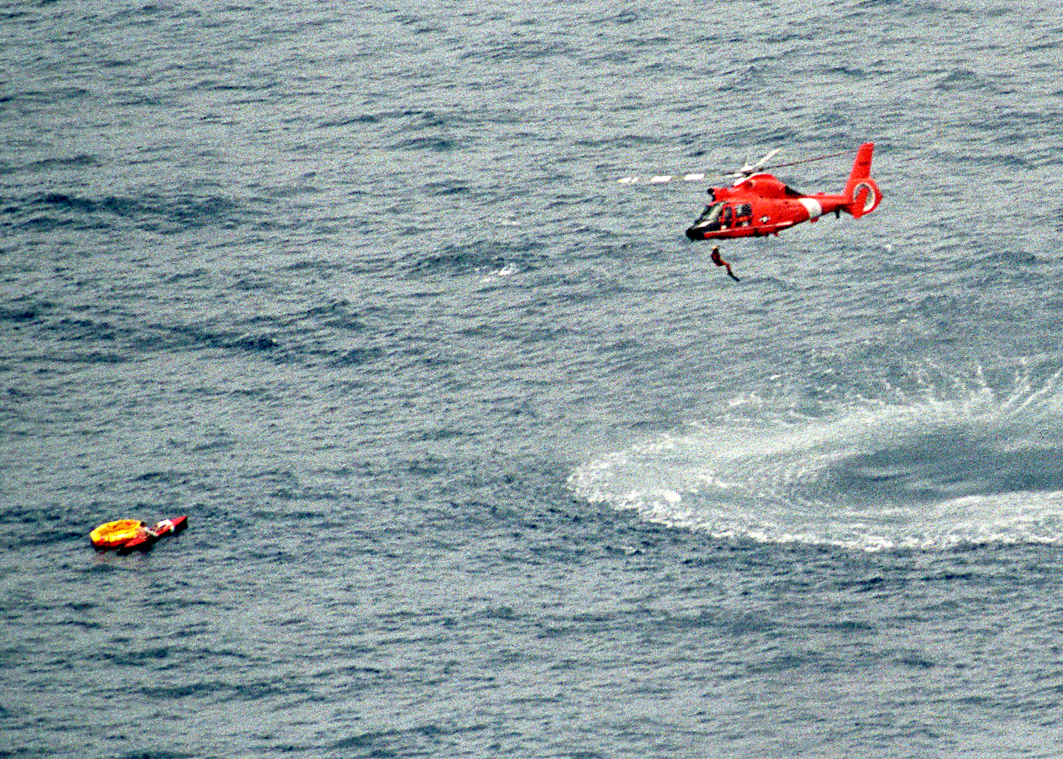 Pacific Ocean - (JULY 30, 2002) -- A U. S. Coast Guard HH-65 “Dolphin” helicopter conducts a dramatic joint rescue of a stranded kayaker found adrift and taking on water, approximately 100 miles off the coast of Hawaii. A U.S. Navy P-3C “Orion” maritime patrol and antisubmarine warfare plane assigned to the "Golden Eagles" of Patrol Squadron Nine (VP-9), spotted the kayaker who had braved 10 - 15 foot waves for four days. The P-3C stayed on station coordinating the arrival of a rescue team from Barbers Point U.S. Coast Guard Air Station in Hawaii. Aviation Warfare Systems Operator 1st Class Gary L. Phillips was one of two VP-9 crewmembers who spotted the kayaker while conducting a training mission in the area. U. S. Navy photo by Aviation Warfare Systems Operator 1st Class Gary L. Phillips. (RELEASED)